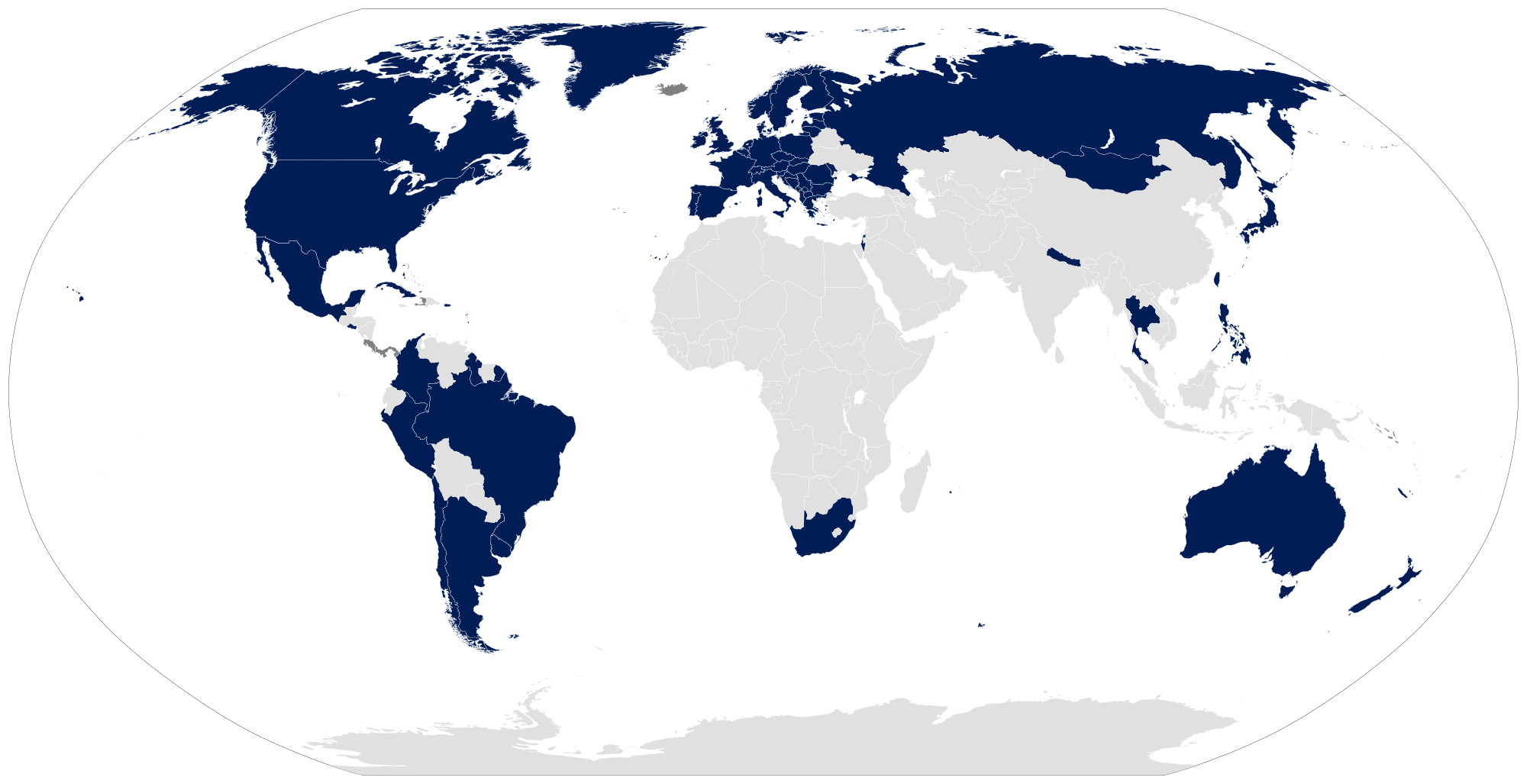 Map of homosexuals allowed to serve in the military. Data is based on Sexual orientation and military service.